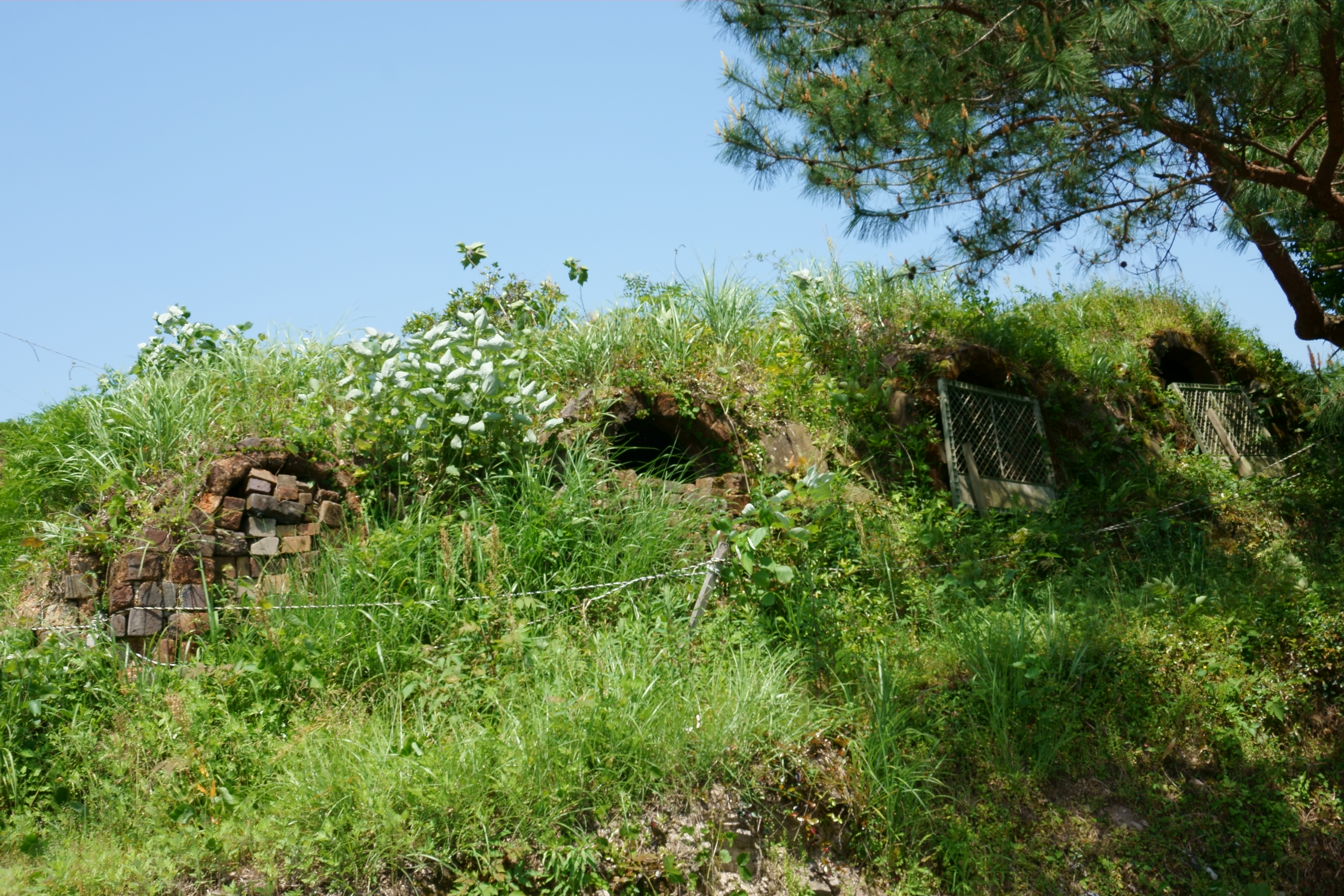 Old Yokomakura jar climbing kiln, in Yokomakura, Ouchi, Karatsu city, Saga prefecture.